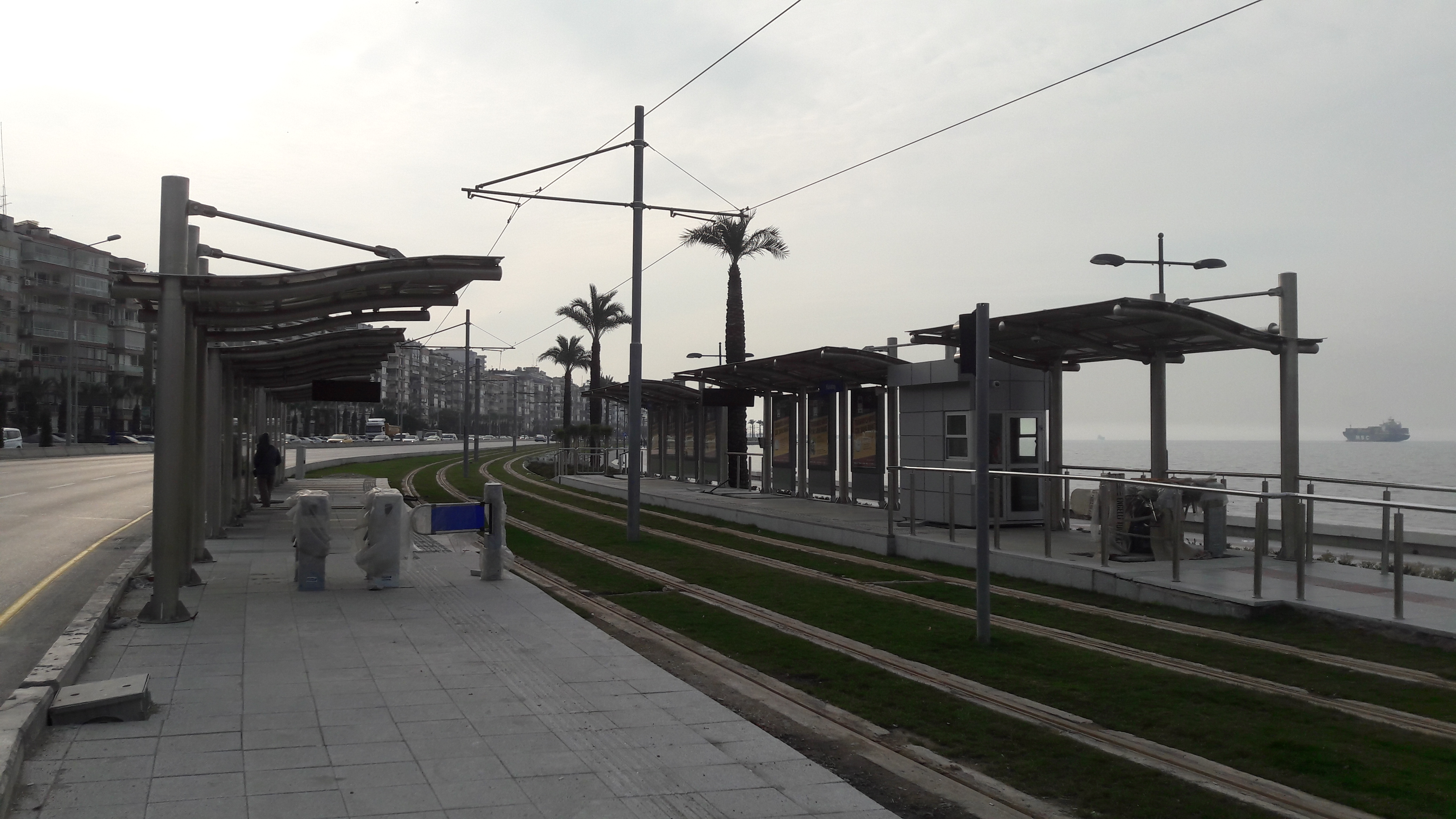 Karatas station on the Konak Tram line.